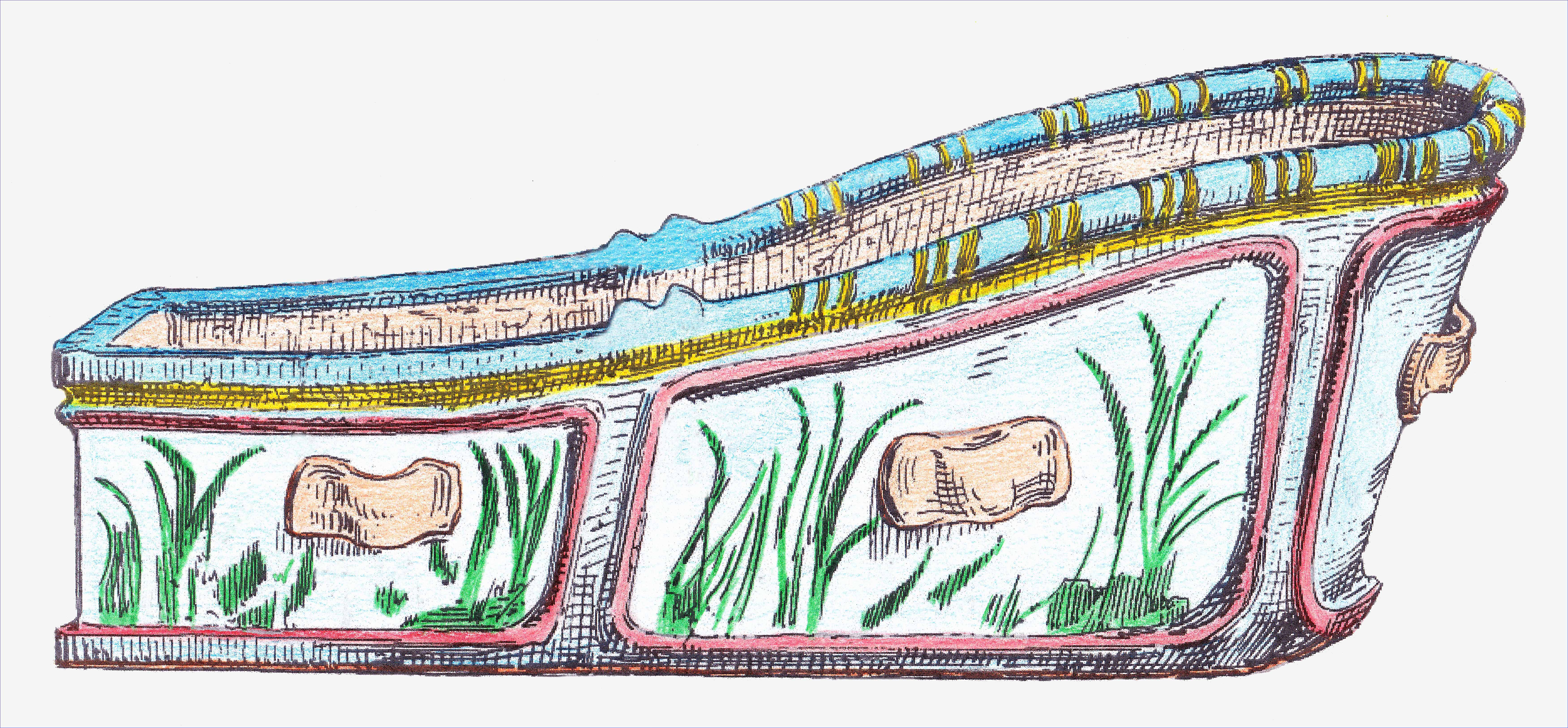 Bathtub in terra-cotta painted in the Palace of Knossos.